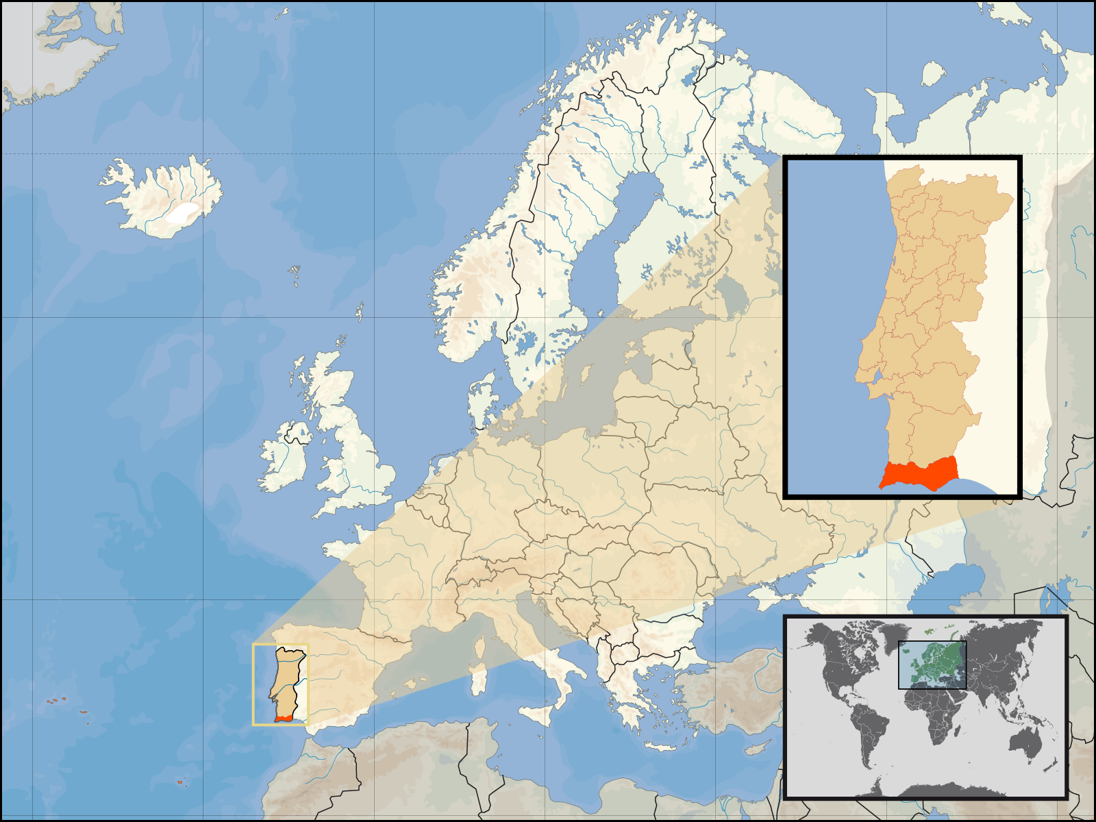 Map of Algarve